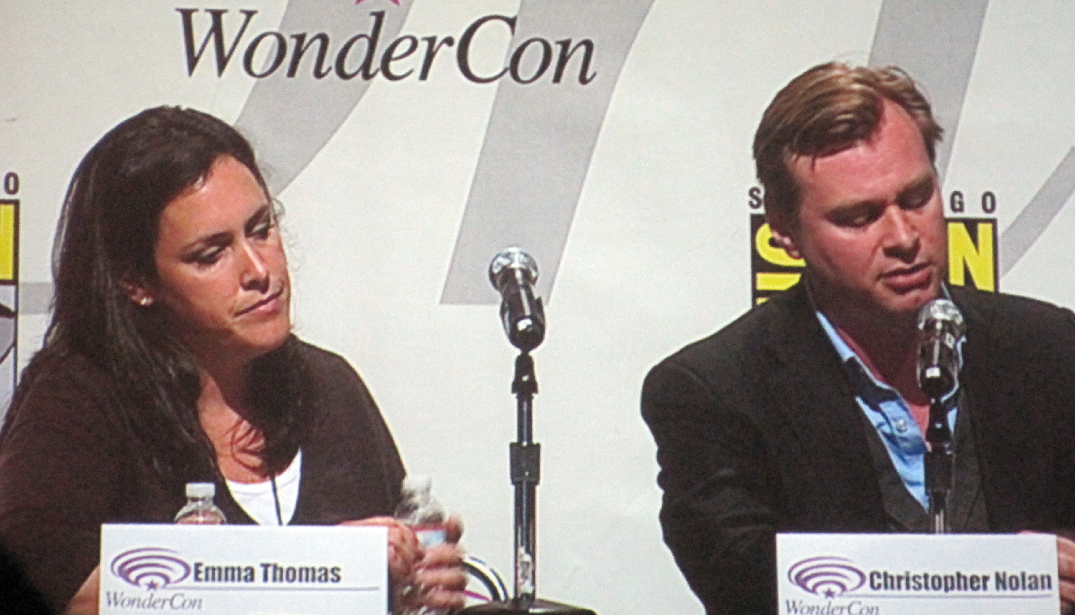 Producer Emma Thomas and director Christopher Nolan participating in the Inception panel at WonderCon 2010.